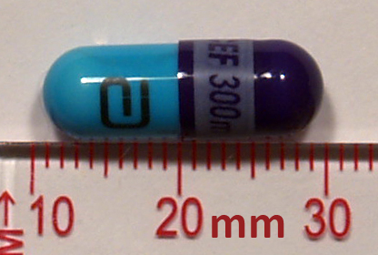 Omnicef (cefdinir) 300mg Abbott Labs